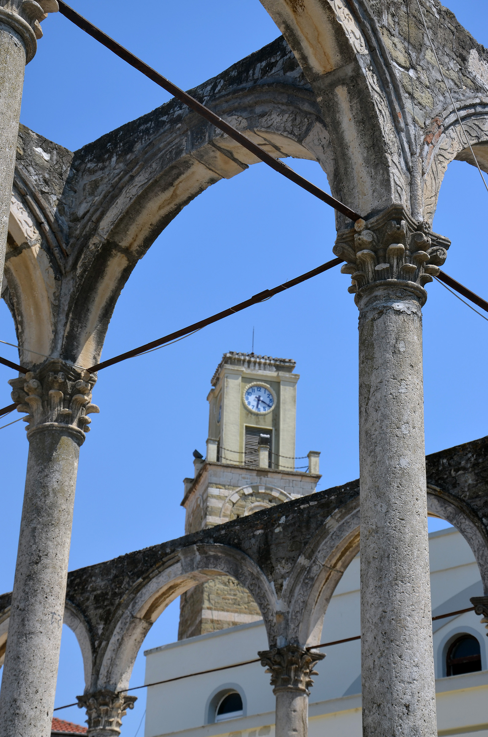 The portico arcade of the Kubelie Mosque and the Watch Tower in Kavajë, Albania